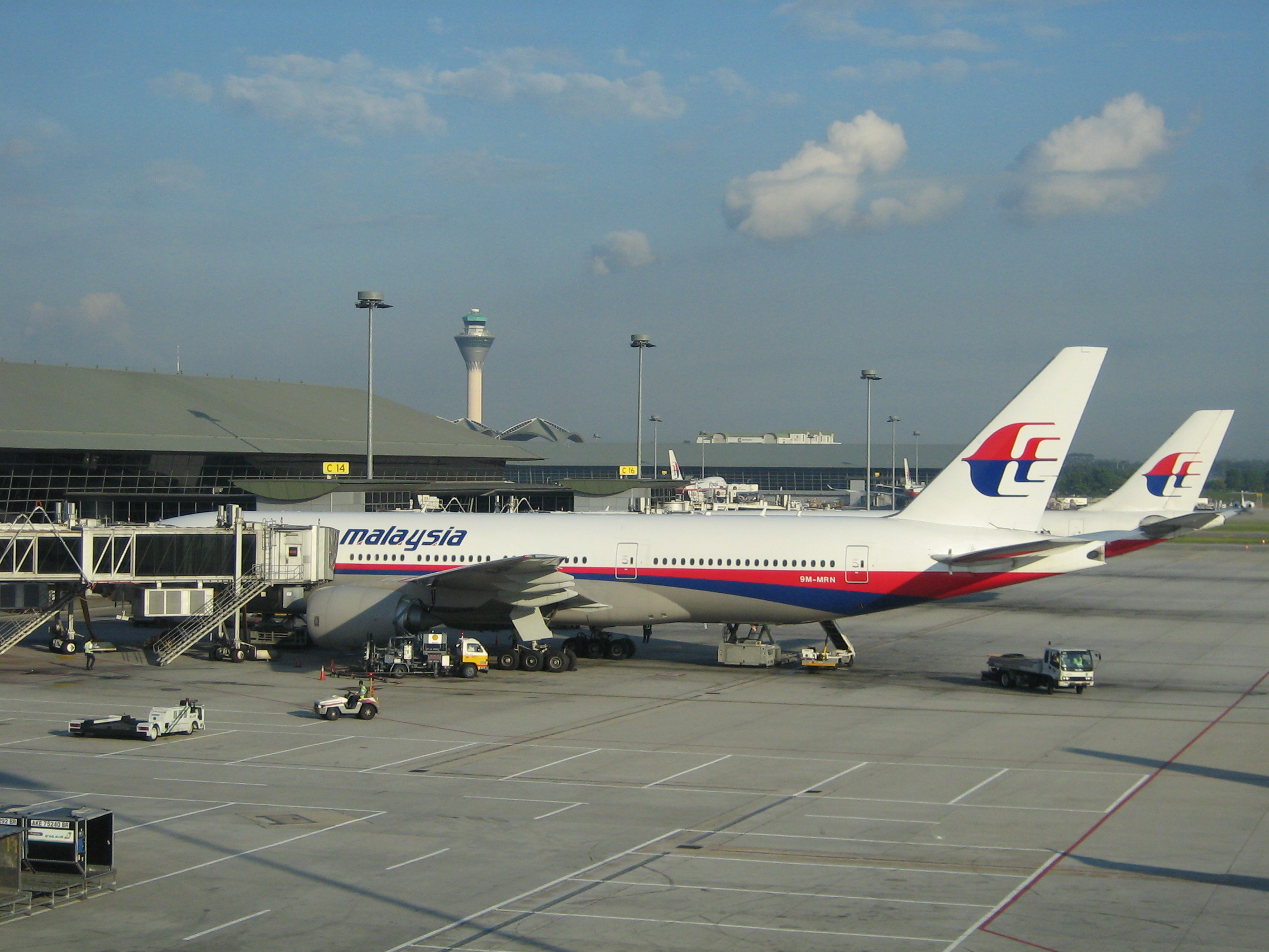 Malaysia Airlines airplanes at Kuala Lumpur International Airport, in front a Boeing 777-200